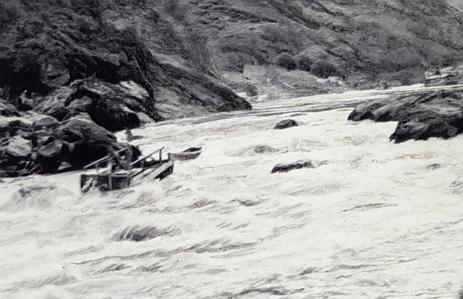 Running Snow Hole Rapids on Salmon River. Transportation for level party. Level party of Ira Rubottom. Salmon River, Idaho.